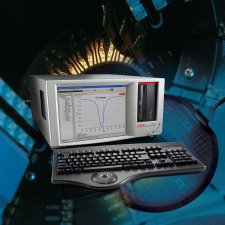 4200-CVU